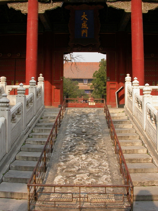 Main gate of the Temple of Confucius in Beijing, photograph taken on the 6th of november in 2004 by snowyowls, image is free to use.